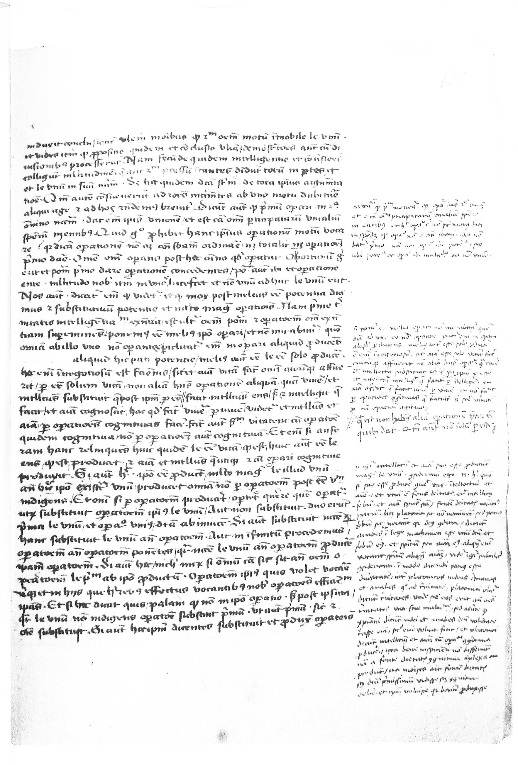 Proclus, Expositio in Parmenidem Platonis, translated by William of Moerbeke with marginalia of Nicholas of Cusa in Bernkastel-Kues, Bibliothek des Sankt-Nikolaus-Hospitals, Codex 186, fol. 125r.